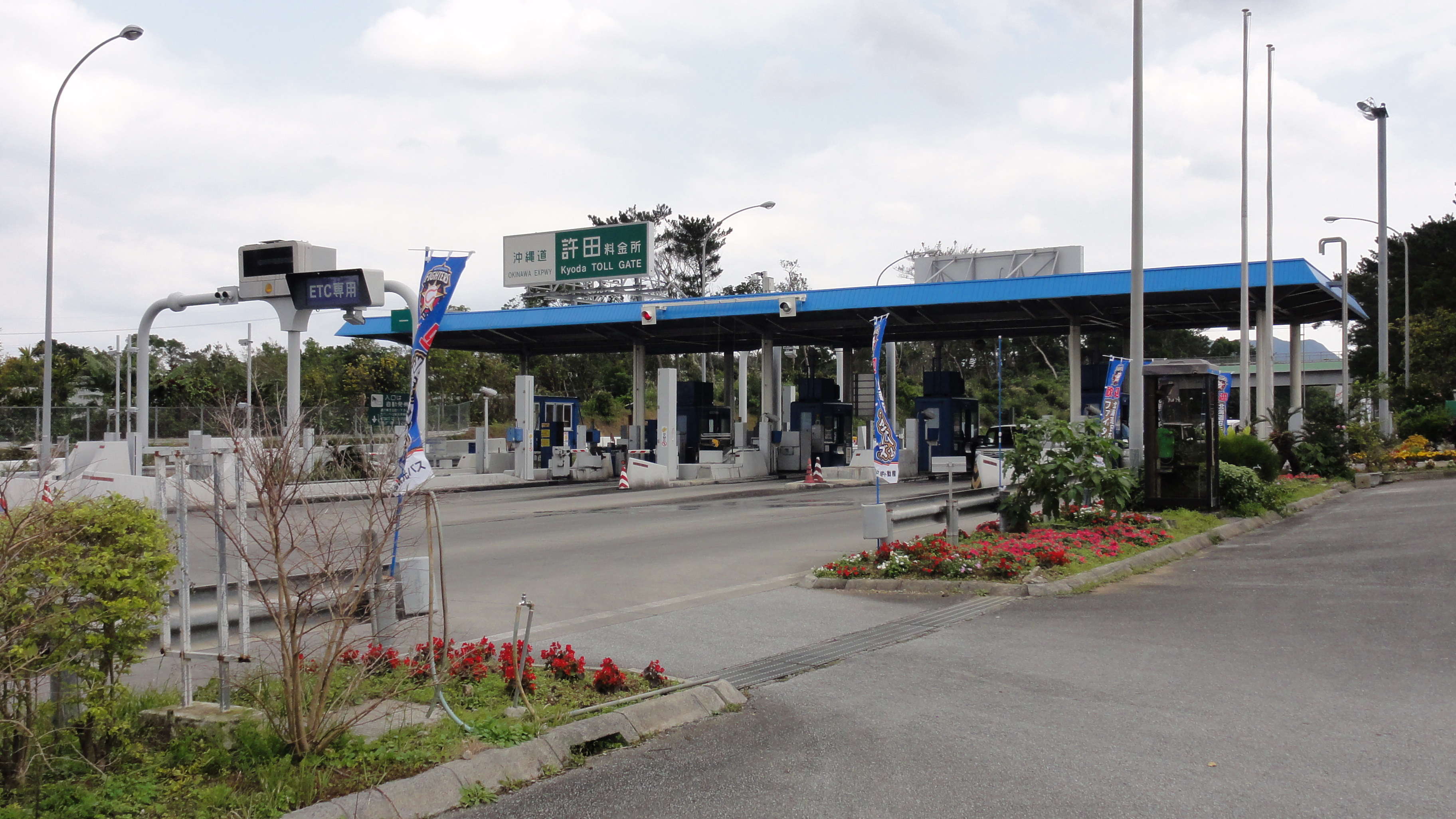 Kyoda Toll Gate